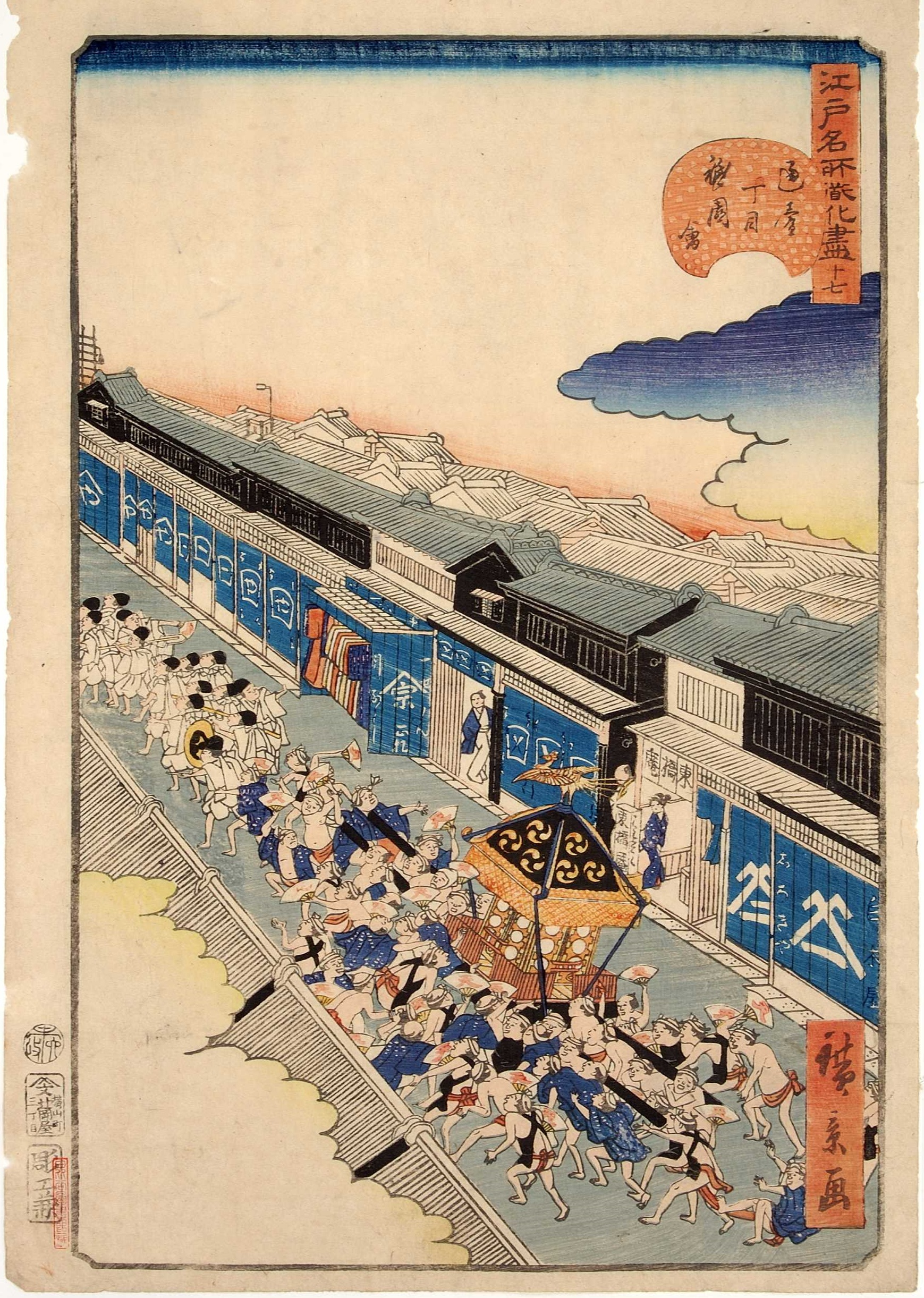 No. 17, Gion Festival in Tōri-itchōme (Tôri-itchōme Gion-e), from the series Comical Views of Famous Places in Edo (Edo meisho dōke zukushi)